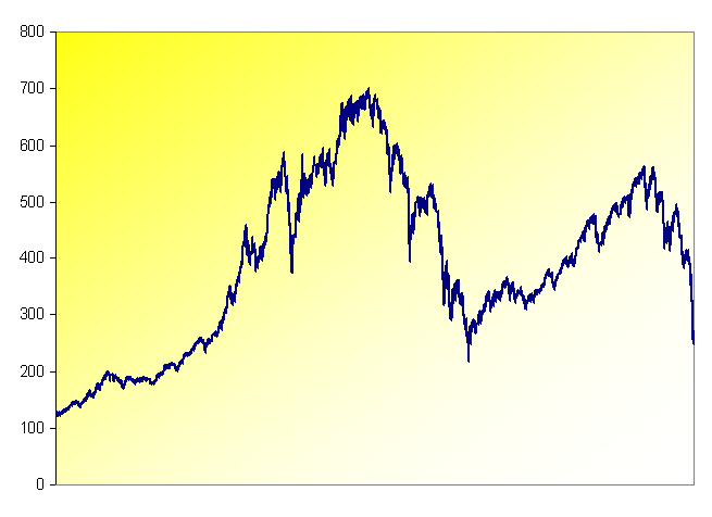 chart of AEX 1992-2008